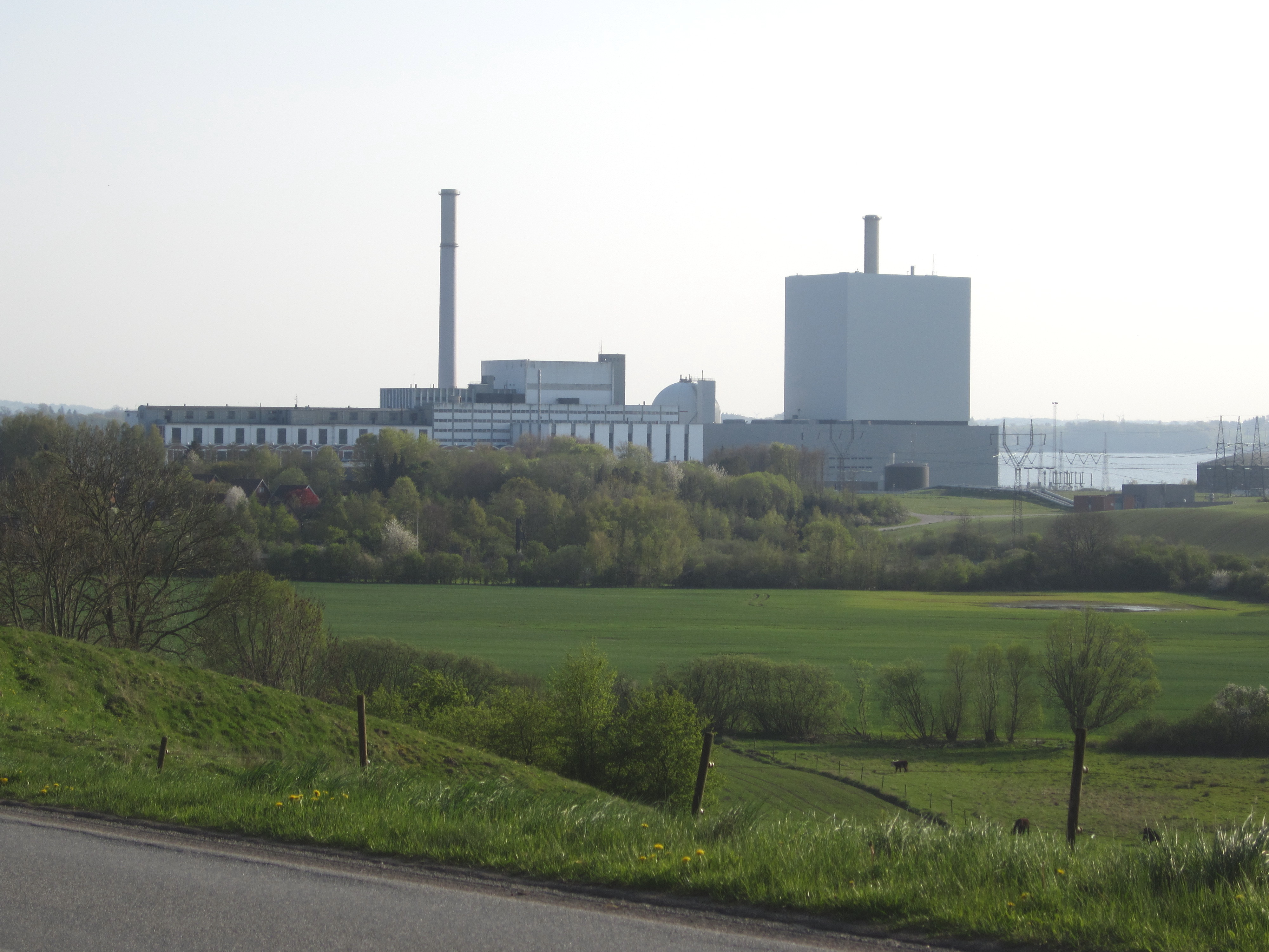 The power plant "Skærbækværket" in Fredericia Kommune, South-Central Jutland, southern Denmark.